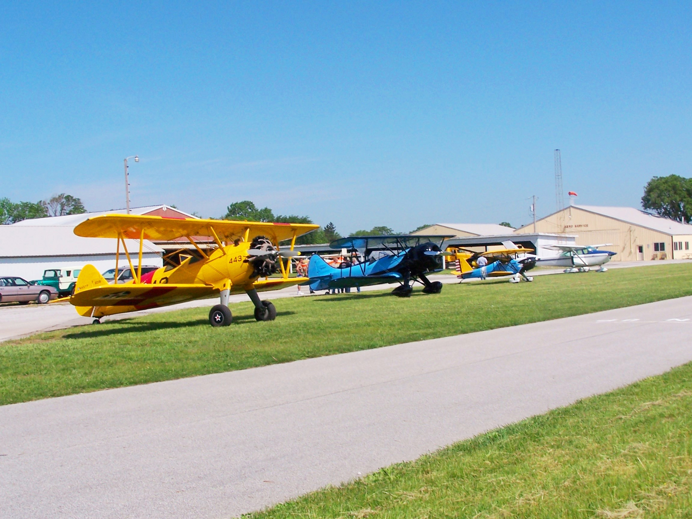 Stearman, Waco, experimental airplane, and Cessna 182 at Lake Village Airport